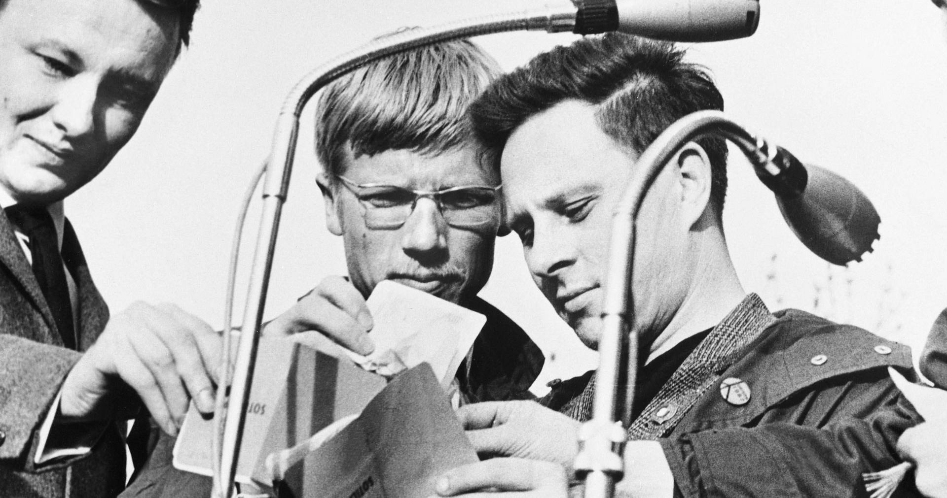 Photograph of Finnish protestors — Kalevi Seilonen, Tauno Tuomivaara, and Ilpo Saunio — of Sadankomitea peace organization burning their military passports publicly in Helsinki to support the conscientious objectors.